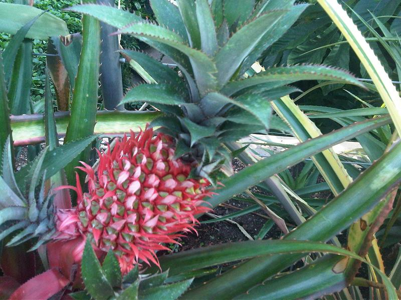 Pineapple (Ananas comosus - syn: Ananas bracteatus) in Kew Gardens, England.